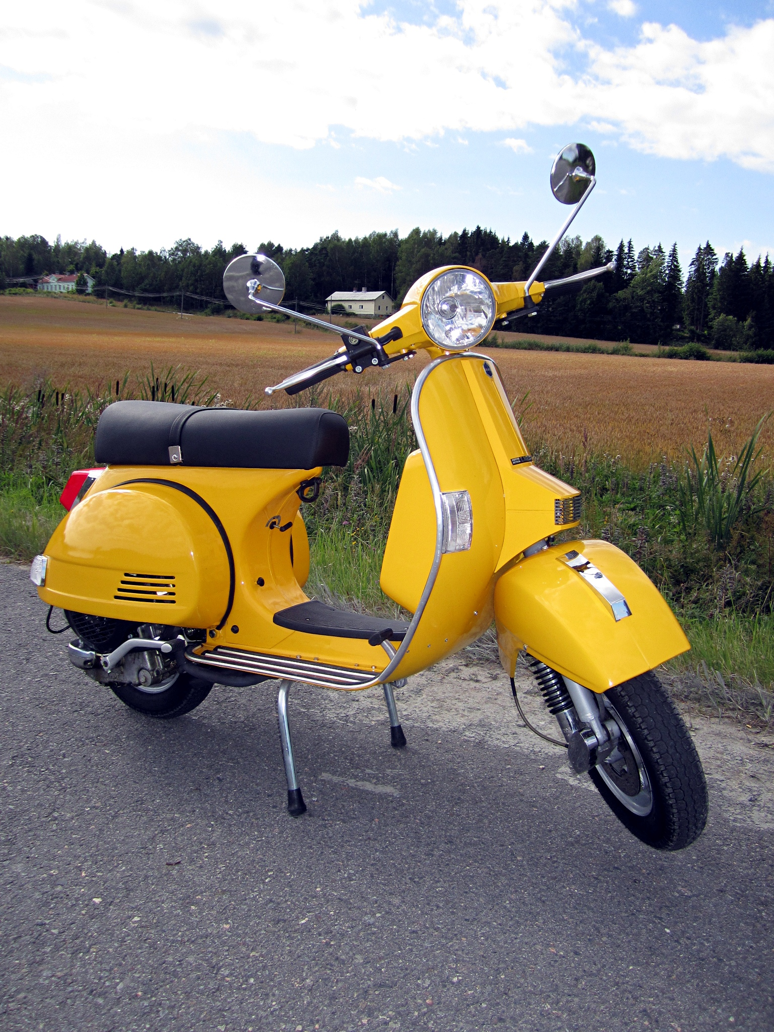 LML Star 125 four-stroke Vespa PX clone (2012). Made in India.